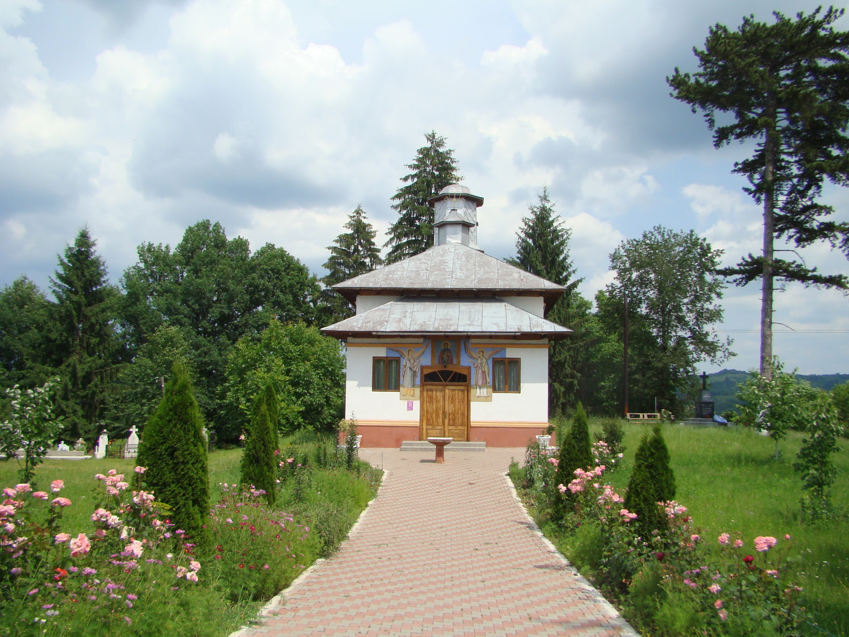 Wooden church in Milostea, Vâlcea county, Romania